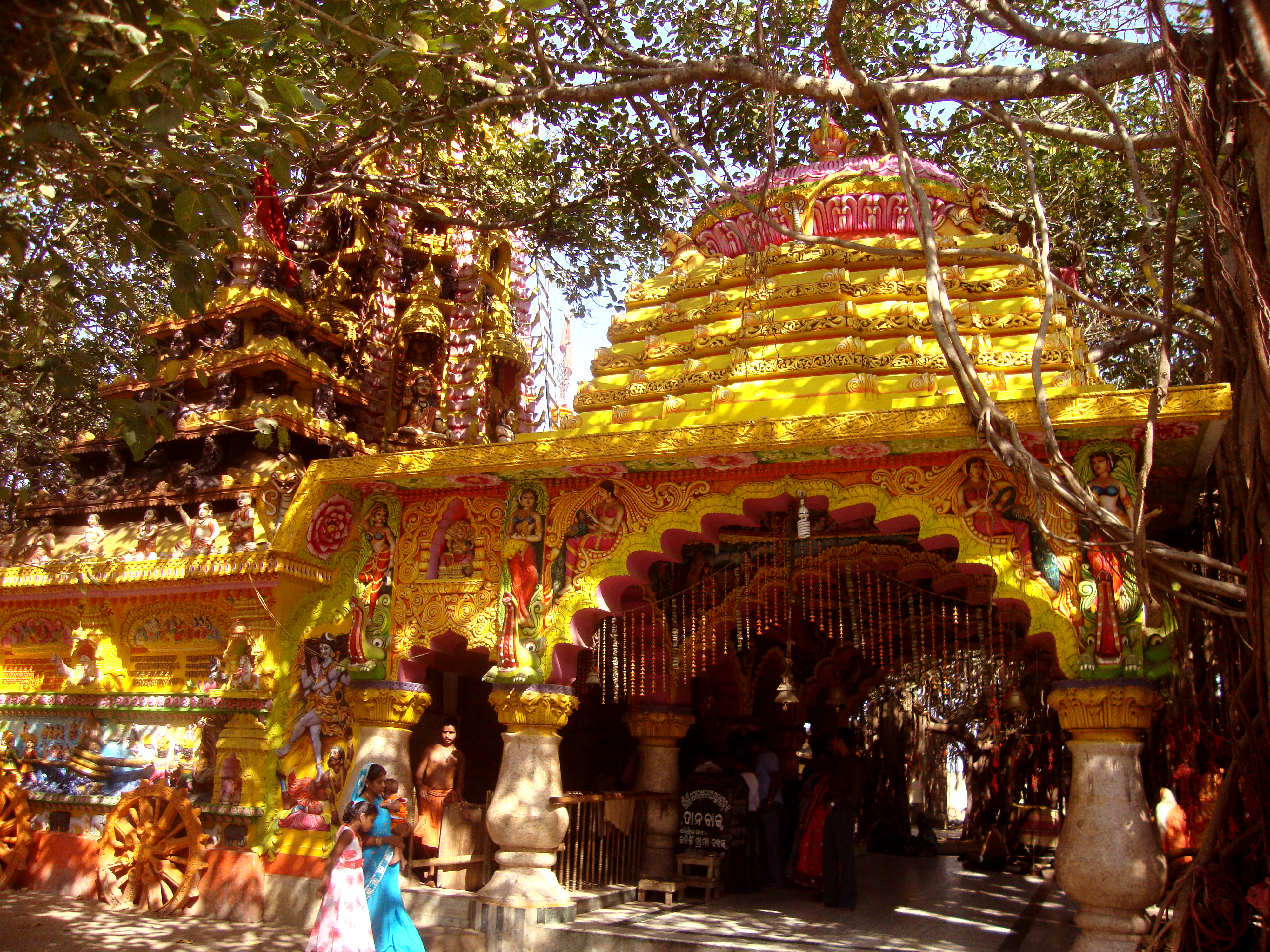 gorakhnath temple jagatsinghpur